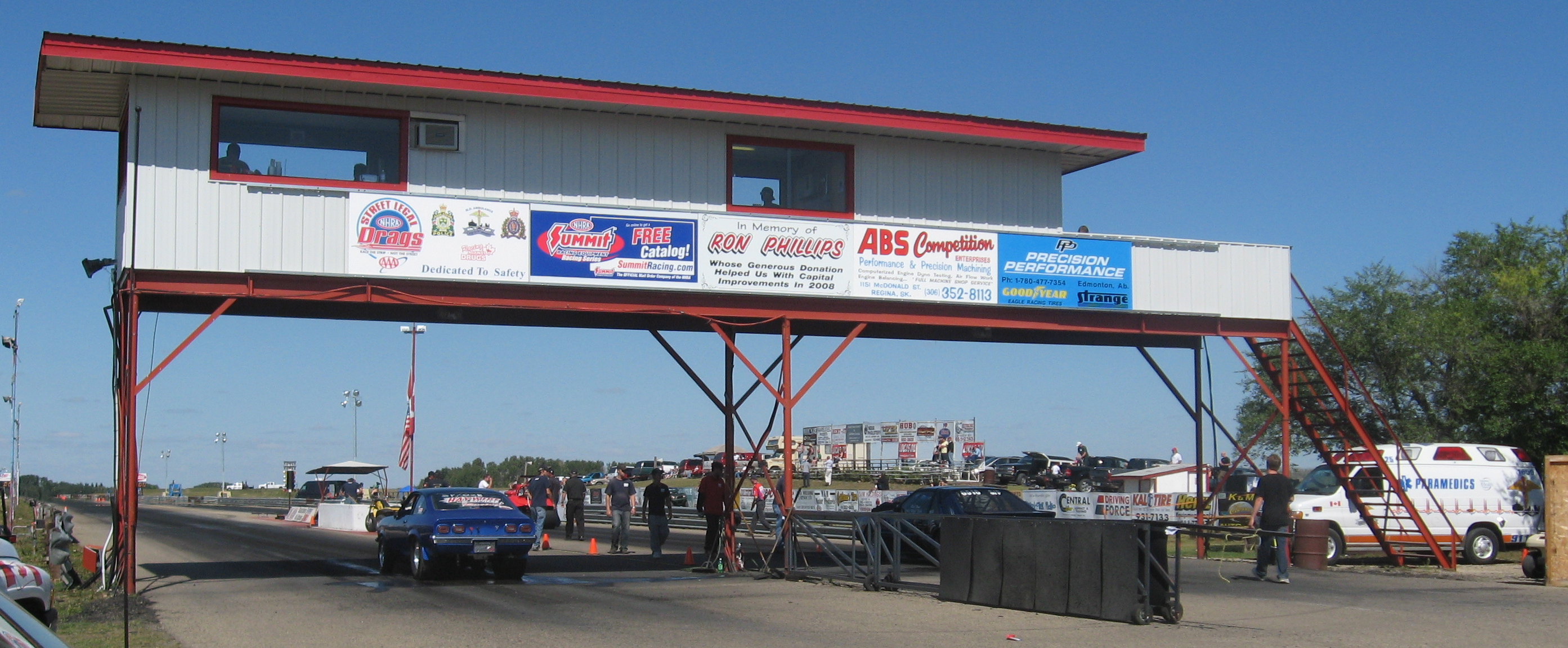 The tower at SIR, drag strip 13km from Saskatoon, SK; from East, staging lanes view